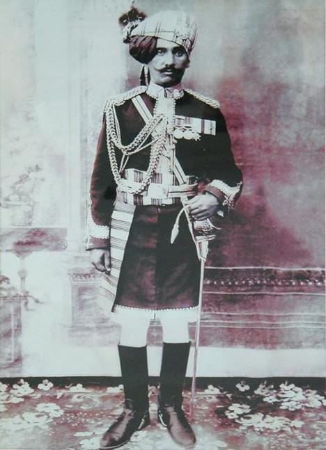 Col Rao Bahadur Thakur Balu Singh Shekhawat Sardar Bahadur ,OBI,IDSM,ADC was the 6th Commandant of the Bikaner Ganga Risala .As a Lt Col ,he commanded Risala from 1934 to 1940.He was from Inderpura village near Udaipurwatti , Jhunjhunu.